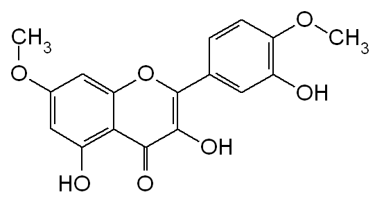 Chemical structure of ombuin